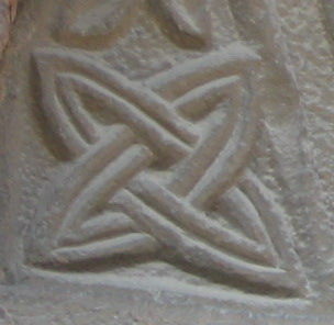 Cropped detail of PD photo File:Tomè9a.JPG by User:Giorces, showing carved decoration in the form of an L4a1 knot-theoretic link above the door of San Tomè church in Almenno San Bartolomeo, Bergamo, Lombardy, Italy.